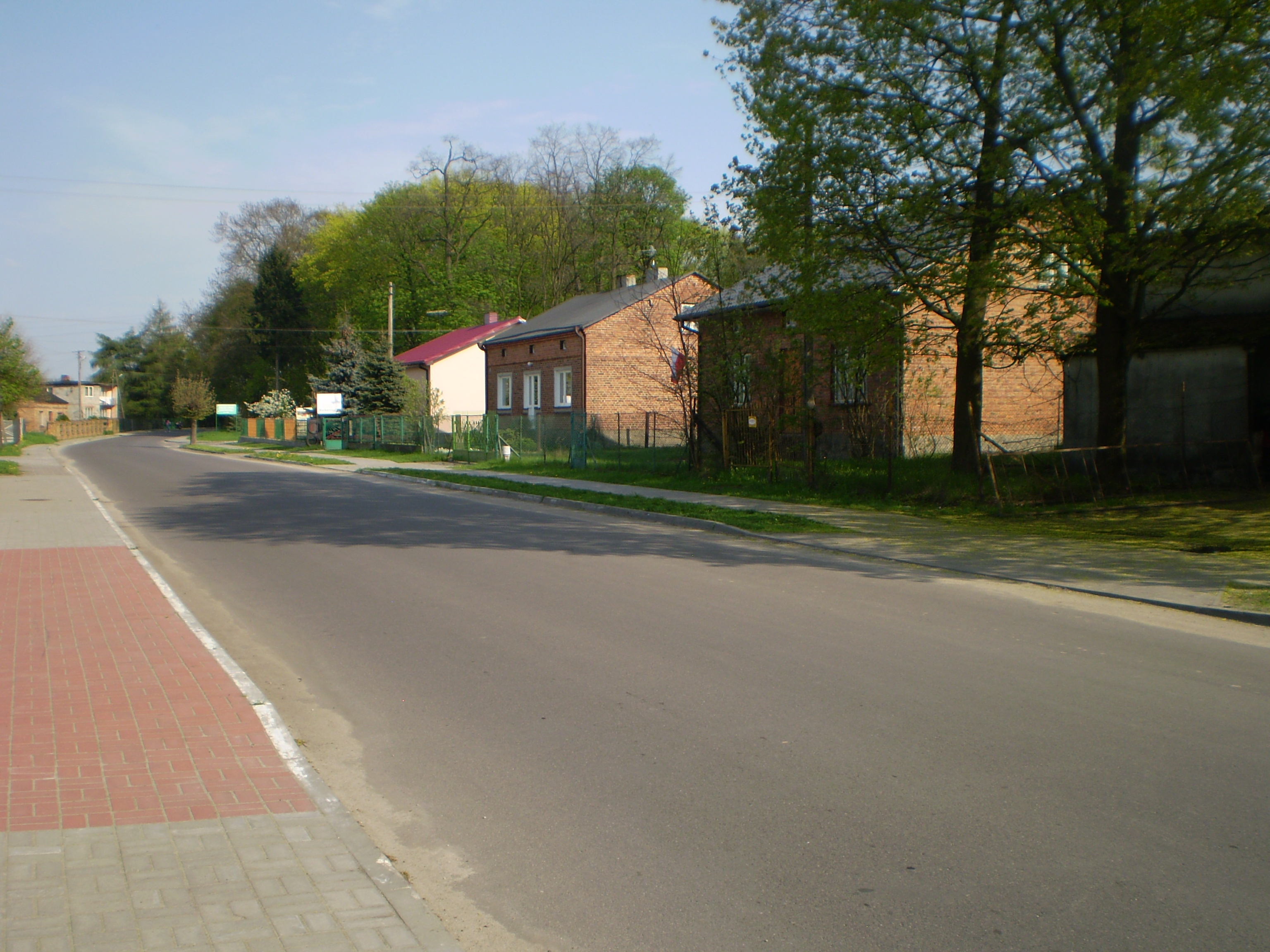 Zadzim